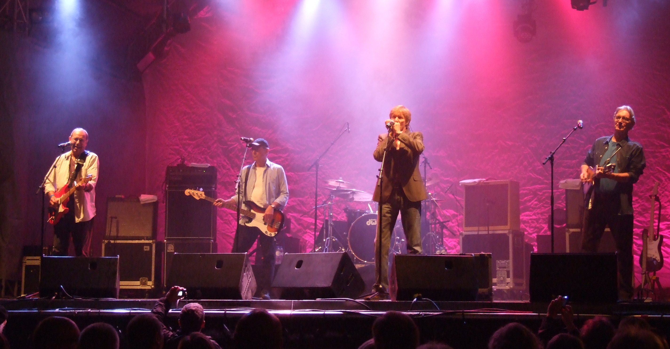 The Blues Band at the September Special in Aachen